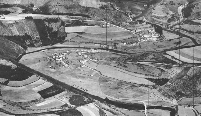 Ouren, Belgium, Showing Bridges